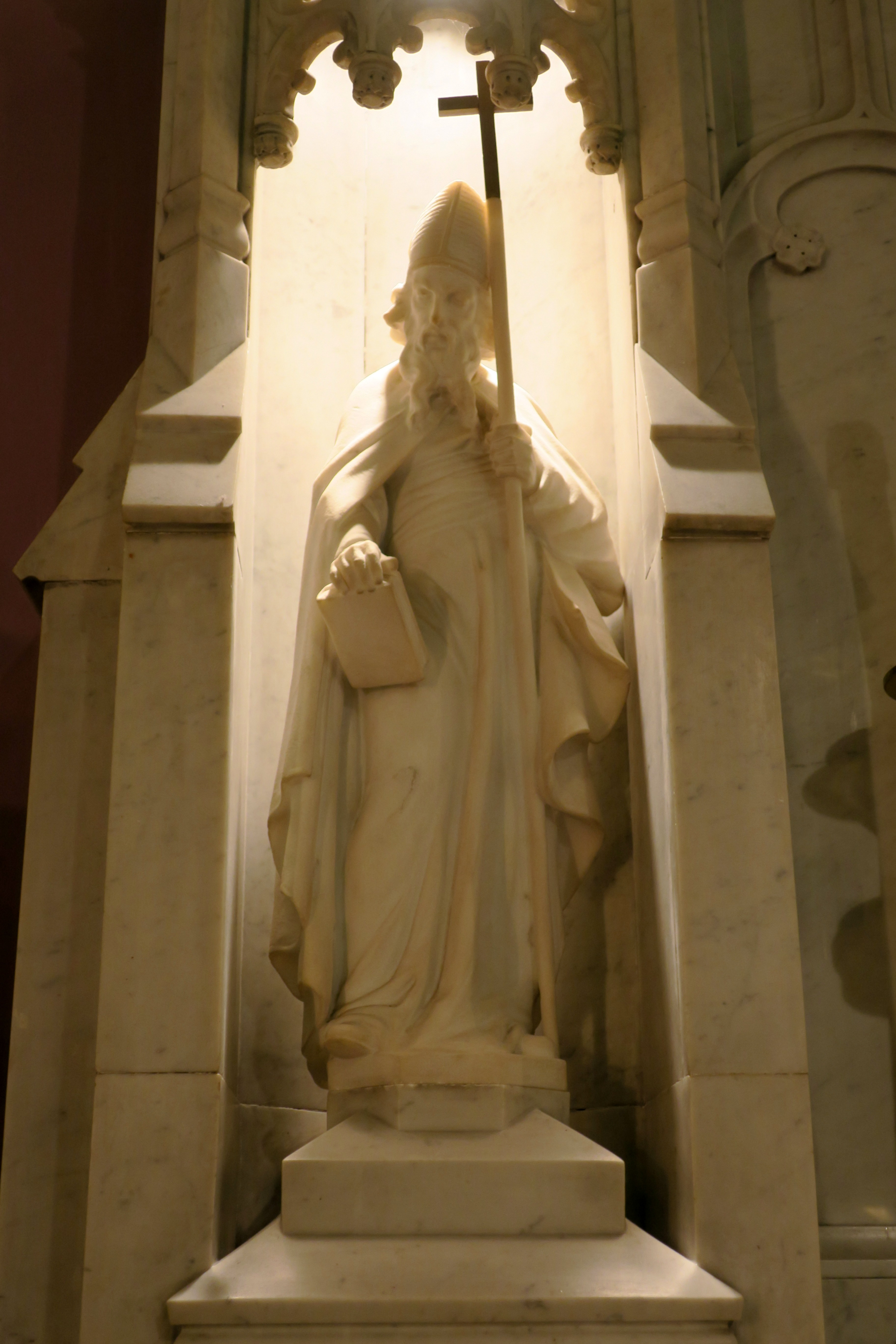 Saint John the Evangelist Church (Logan, Ohio) - high altar statue, St. Edmund of Abingdon